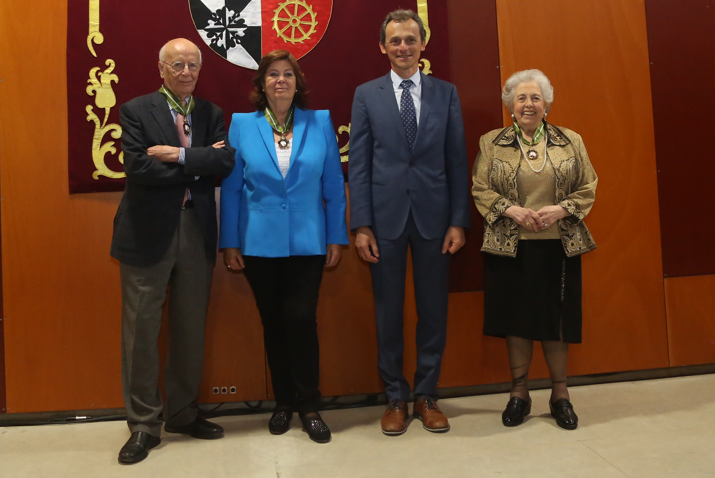 Toledo, 9 de mayo de 2019.- El vicepresidente primero del Gobierno regional, José Luis Martínez Guijarro y el consejero de Educación, cultura y Deportes, Ángel Felpeto, asisten al acto de entrega de las Medallas al Mérito en la Investigación y en la Educación Universitaria en el Aula Magna del Campus Tecnológico Fábrica de Armas, que ha entregado el ministro de Ciencia, Innovación y Universidades, Pedro Duque a Emilio Lledo, María Dolores Cabezuelo y María Vallet. (Foto: Álvaro Ruiz // JCCM)